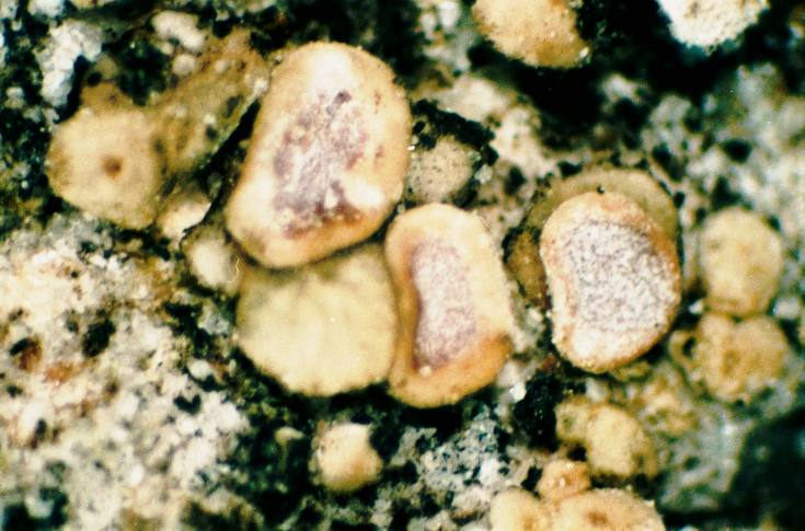 Acarospora glaucocarpa (Wahlenb. ex Ach.) Körb., 1859 (photograph of a herbarium specimen taken through a dissecting microscope (x40) showing apothecia with a pruinose brown disk and thallus tissue reduced to a rim) Growing on exposed limestone along Bush Bay, near picnic area, ca. 6 miles E of Cedarville on M-134, Mackinac County, Michigan, USA; collected and identified by Richard E. Riefner (No. 81-418, 7 Jul 1981); specimen is now in the Lichen Herbarium of the New York Botanical Garden.